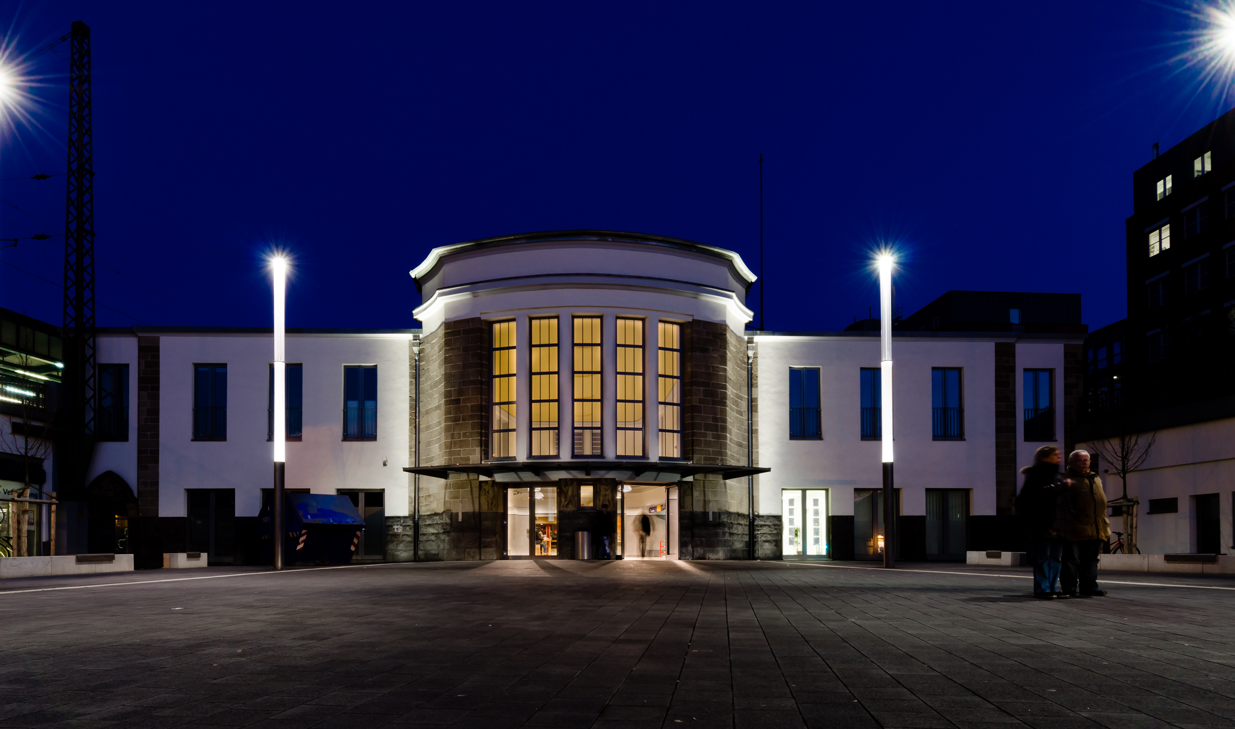 Station building Mülheim an der Ruhr central station after renovation in 2011